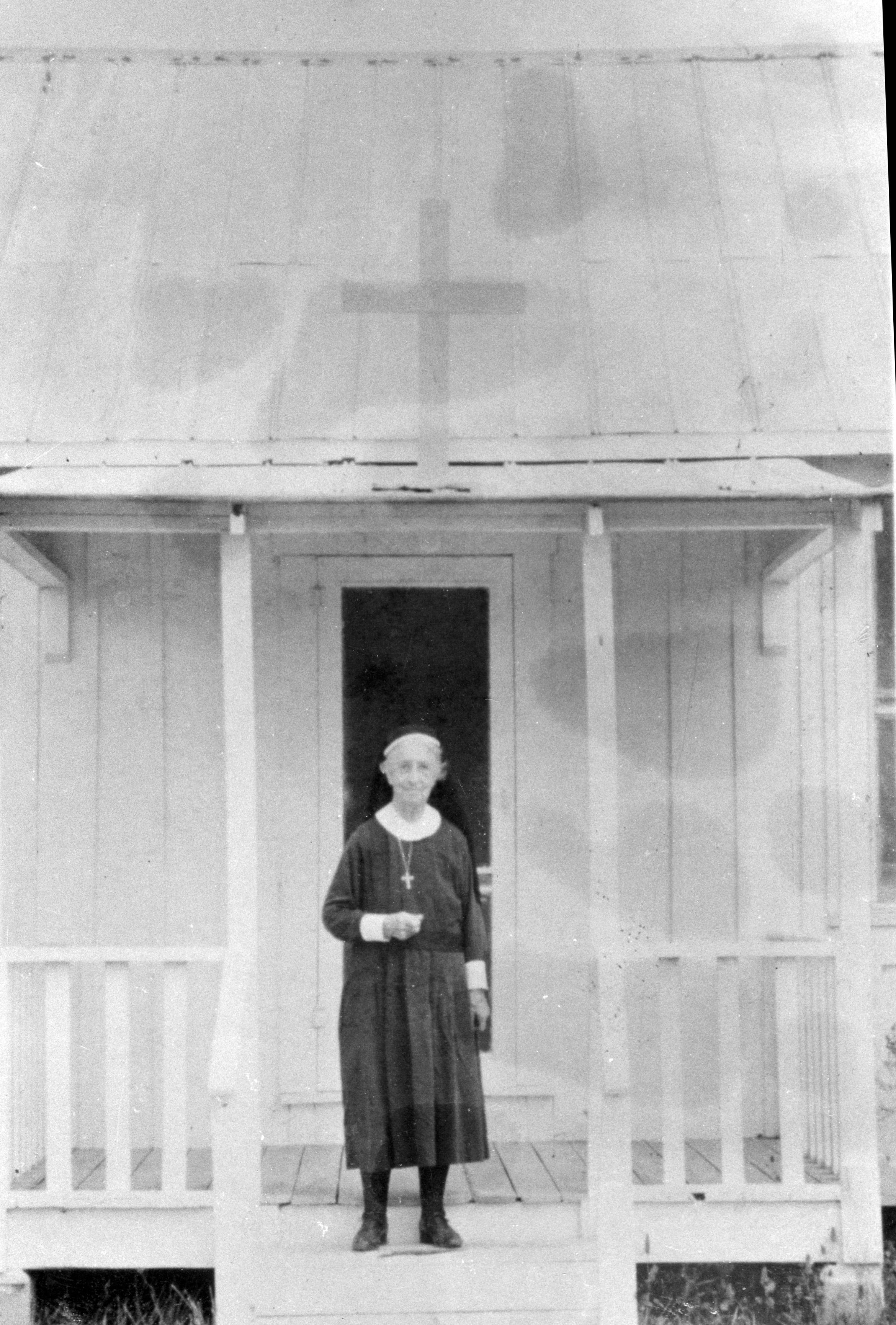 Local call number: BD025 Title: [Deaconess Bedell on the porch of the Mission of Our Savior : Collier City, Florida] Date: Between 1933 and 1960. Physical descrip: 1 photograph : b&w ; 5 x 7 in. Series Title: (Bedell Collection.) Repository: State Library and Archives of Florida, 500 S. Bronough St., Tallahassee, FL 32399-0250 USA. Contact: 850-245-6700. Persistent URL